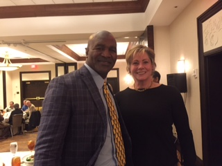 Boxer Evander Holyfield (left) and Olympic Weightlifter Karyn Marshall pose for a photo at the Association of Oldtime Barbell & Strongmen Reunion.